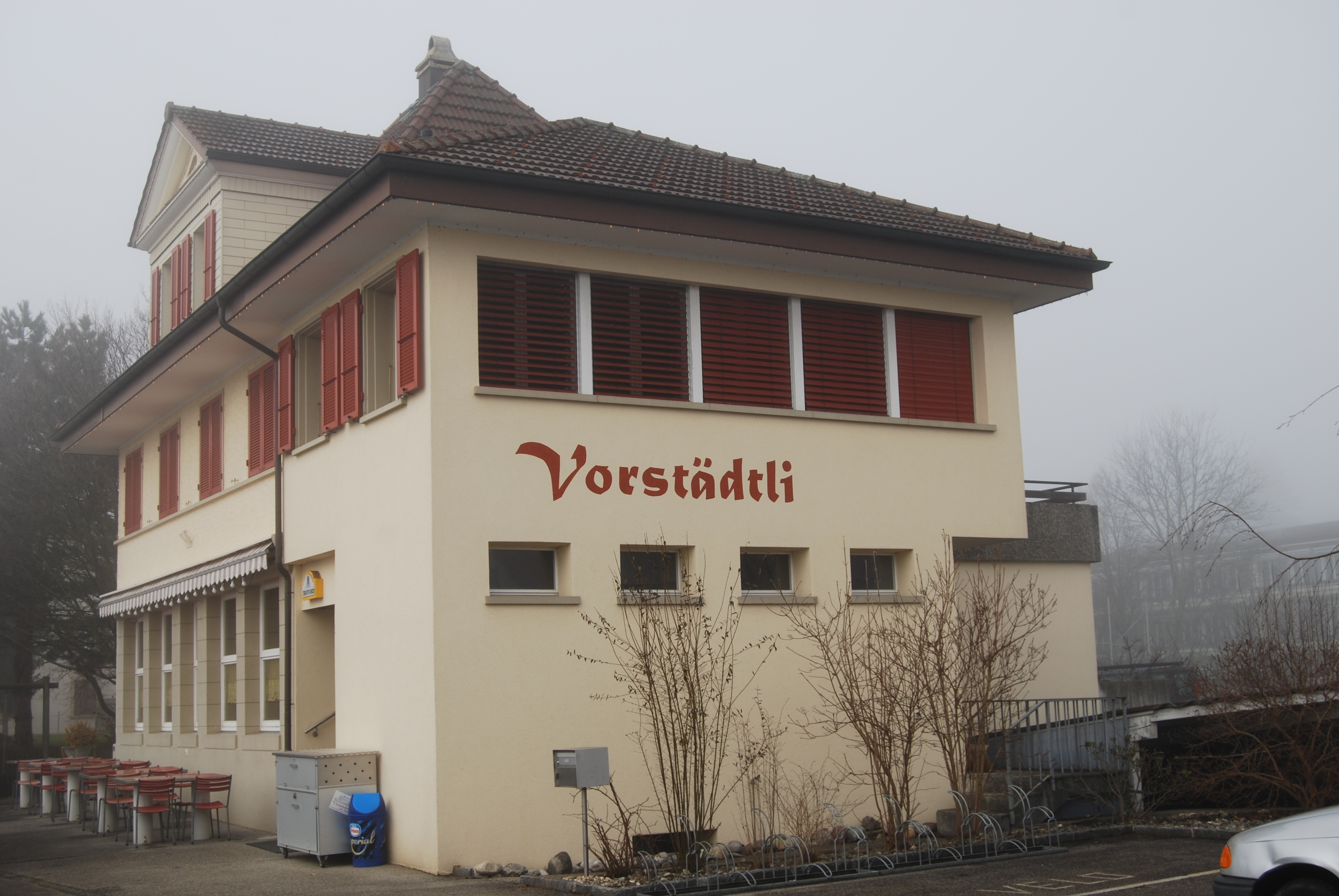 Restaurant Vorstädtli at Laupersdorf, canton of Solothurn, Switzerland